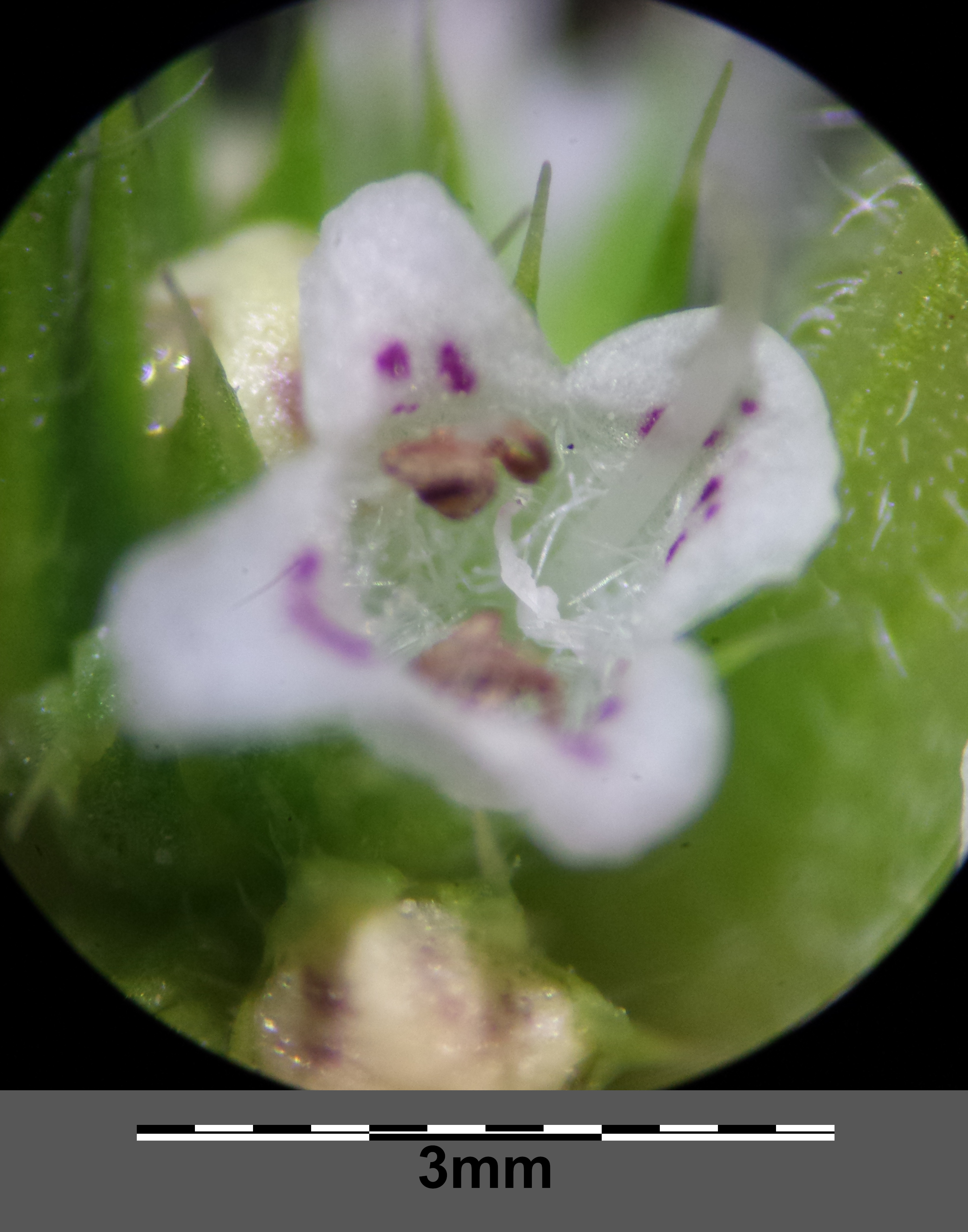 Flower with conspicuous staminodes Taxonym: Lycopus exaltatus ss Fischer et al. EfÖLS 2008 ISBN 978-3-85474-187-9 Location: pond near Michelstetten, district Mistelbach, Lower Austria - ca. 250 m a.s.l. Habitat: shore of a pond